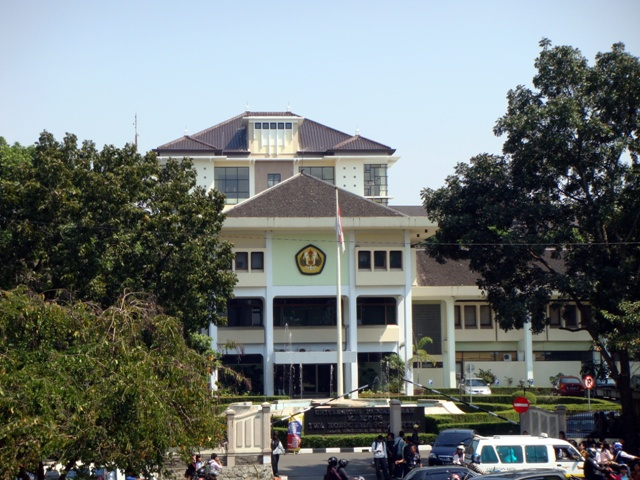 Padjadjaran University of Bandung, West Java, city campus at Dipati Ukur Street. This campus houses the university's faculties of Law and Economy, apart from some Postgraduate Programs.